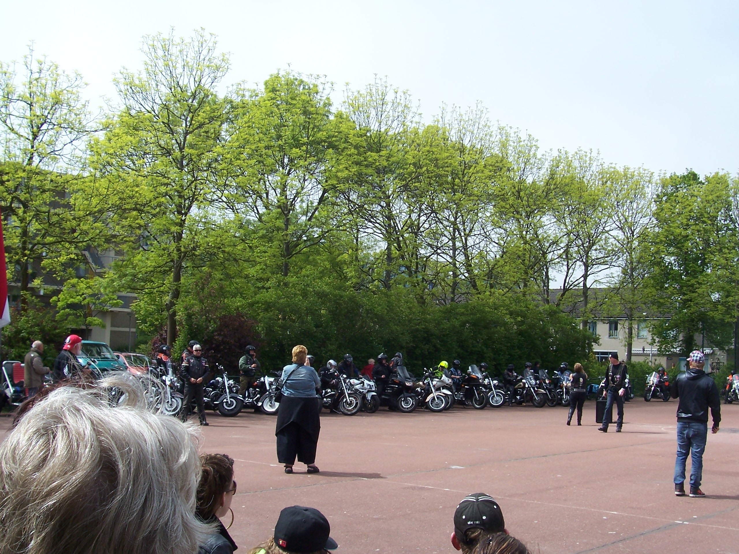 Bikers against child abuse, NL, Katwijk. Fundraising 22-05-2010. (children doing streetdance, linedancers, etc.) Katwijk a/d Rijn Zonnebloemstraat.